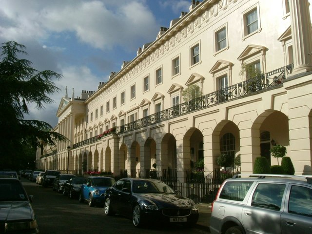 Hanover Terrace - Regent's Park, NW1 Some of the John Nash designed and built houses inside Regent's Park.